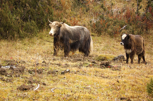 a pair of dzo (yak-cow hybrid) - one adult and one juvenile